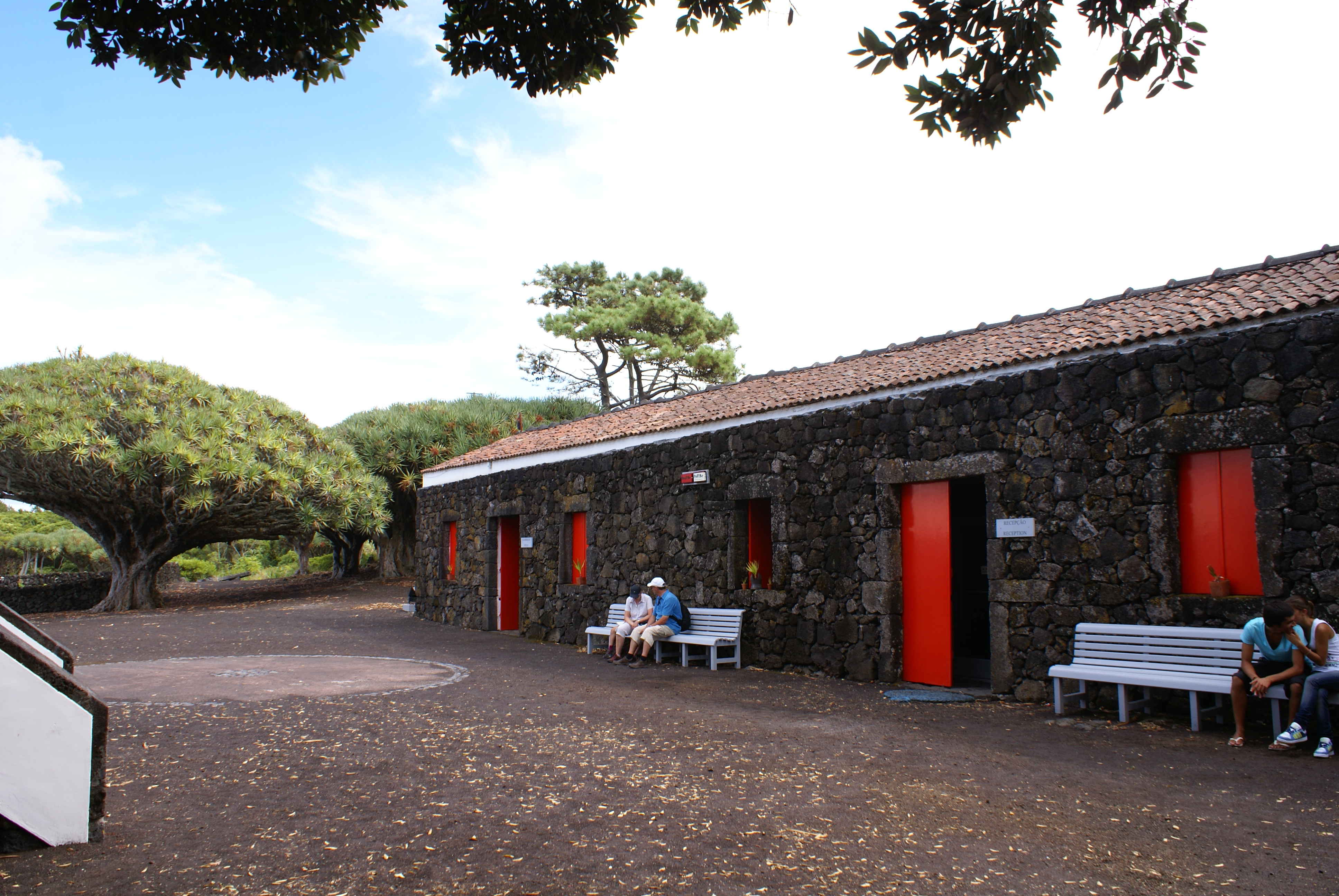 Museu do Vinho do Pico, 2 Lagido da Madalena, Concelho da Madalena, ilha do Pico, Açores, Portugal